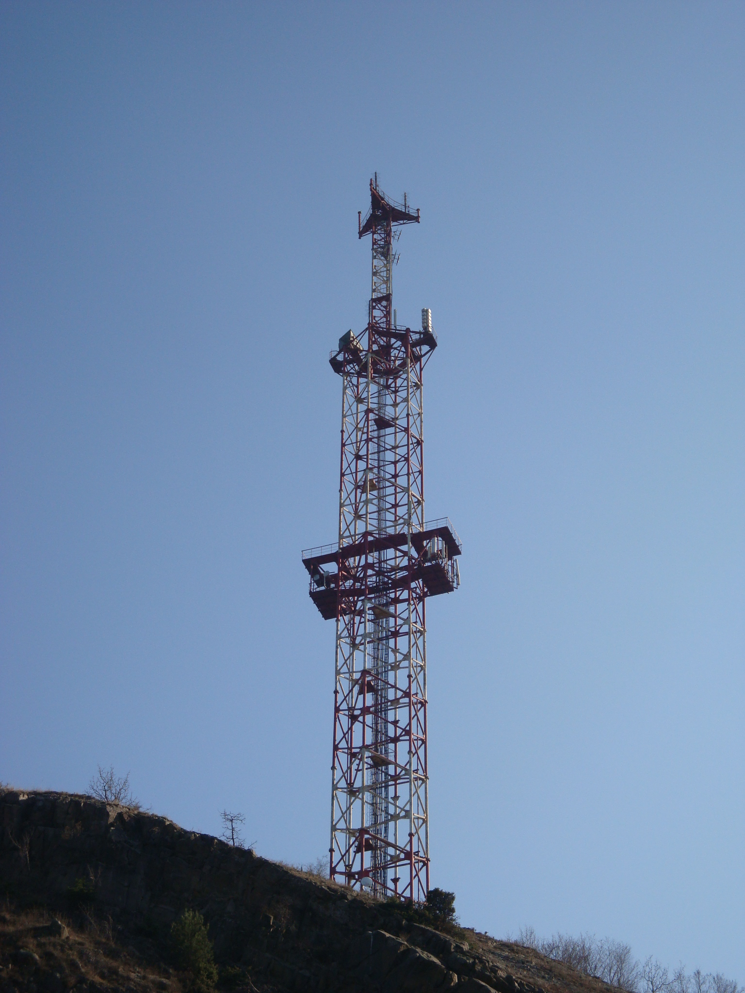 TV-tower in Partenit. Was built by A. Ramishvili